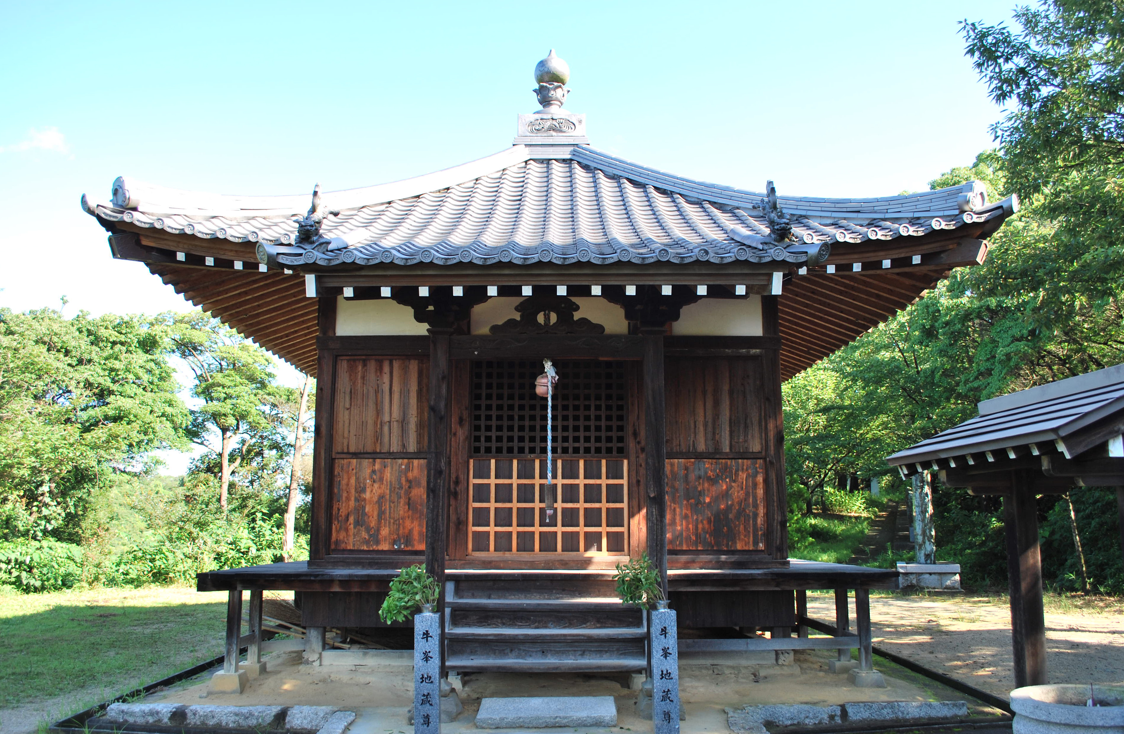 Ushinomine Jizō-dō, Okunoin of the 49th Fudasho Jōdo-ji on the Shikoku Pilgrimage